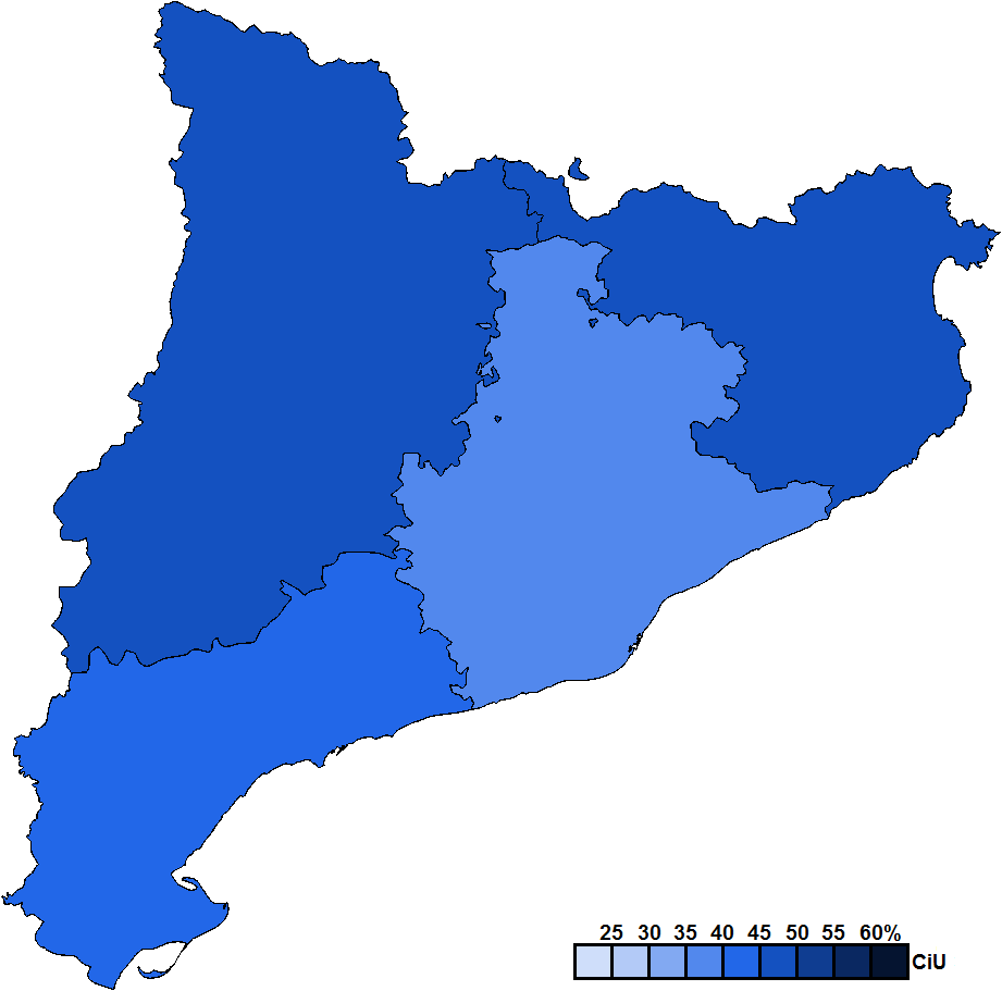 Provincial results for the 1995 Catalan regional election.